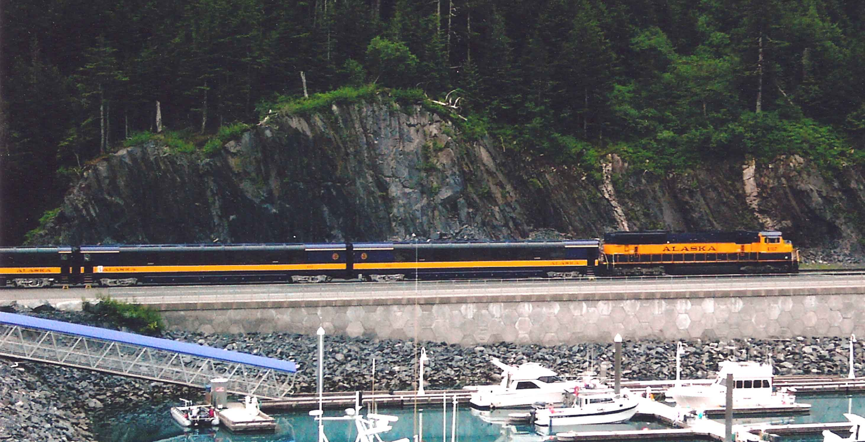 Alaska Railroad train with Colorado Railcar single level dome coaches in Whittier, Alaska.